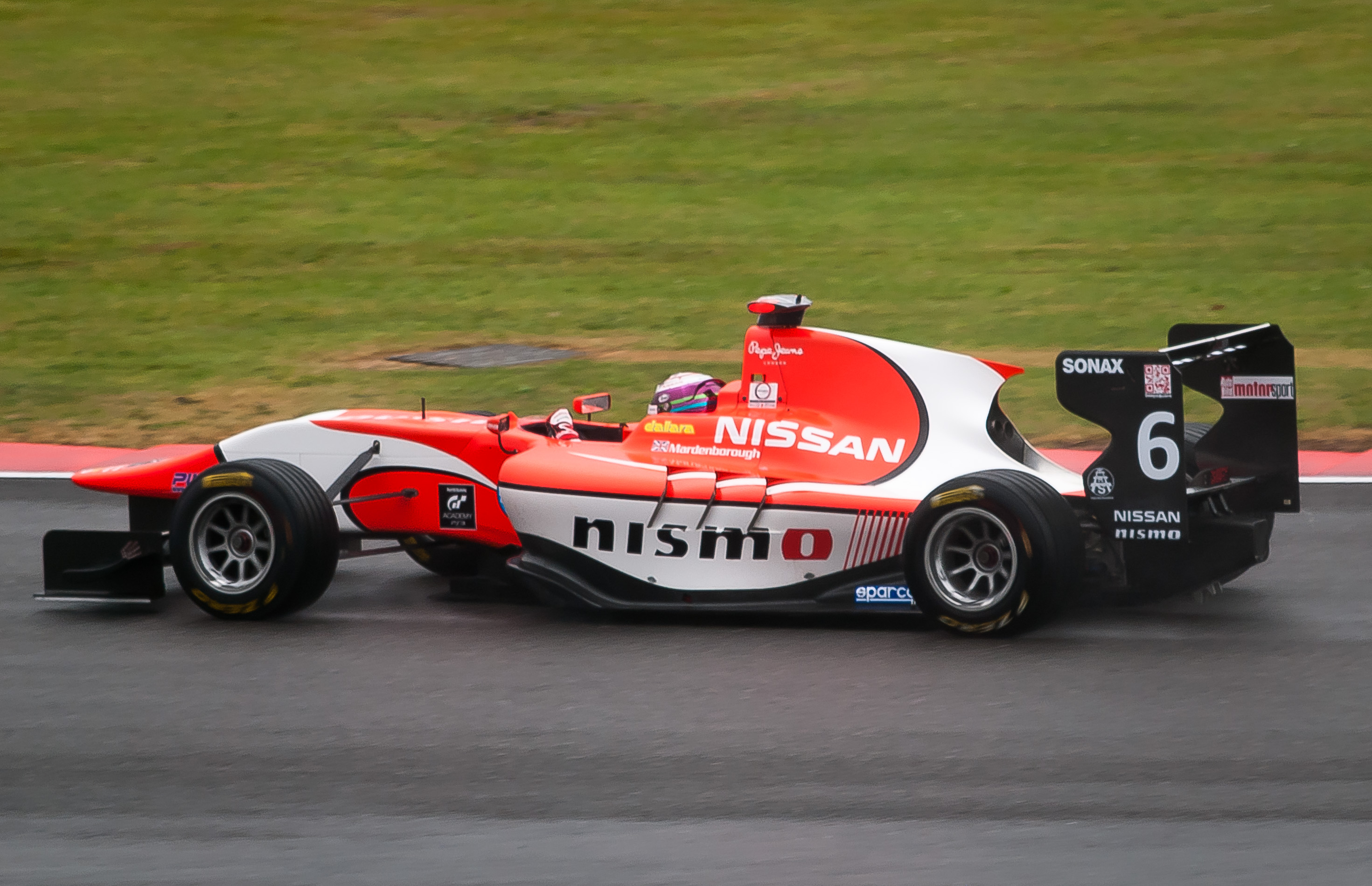 Jann Mardenborough driving for Arden International at the Silverstone round of the 2014 GP3 Series season.